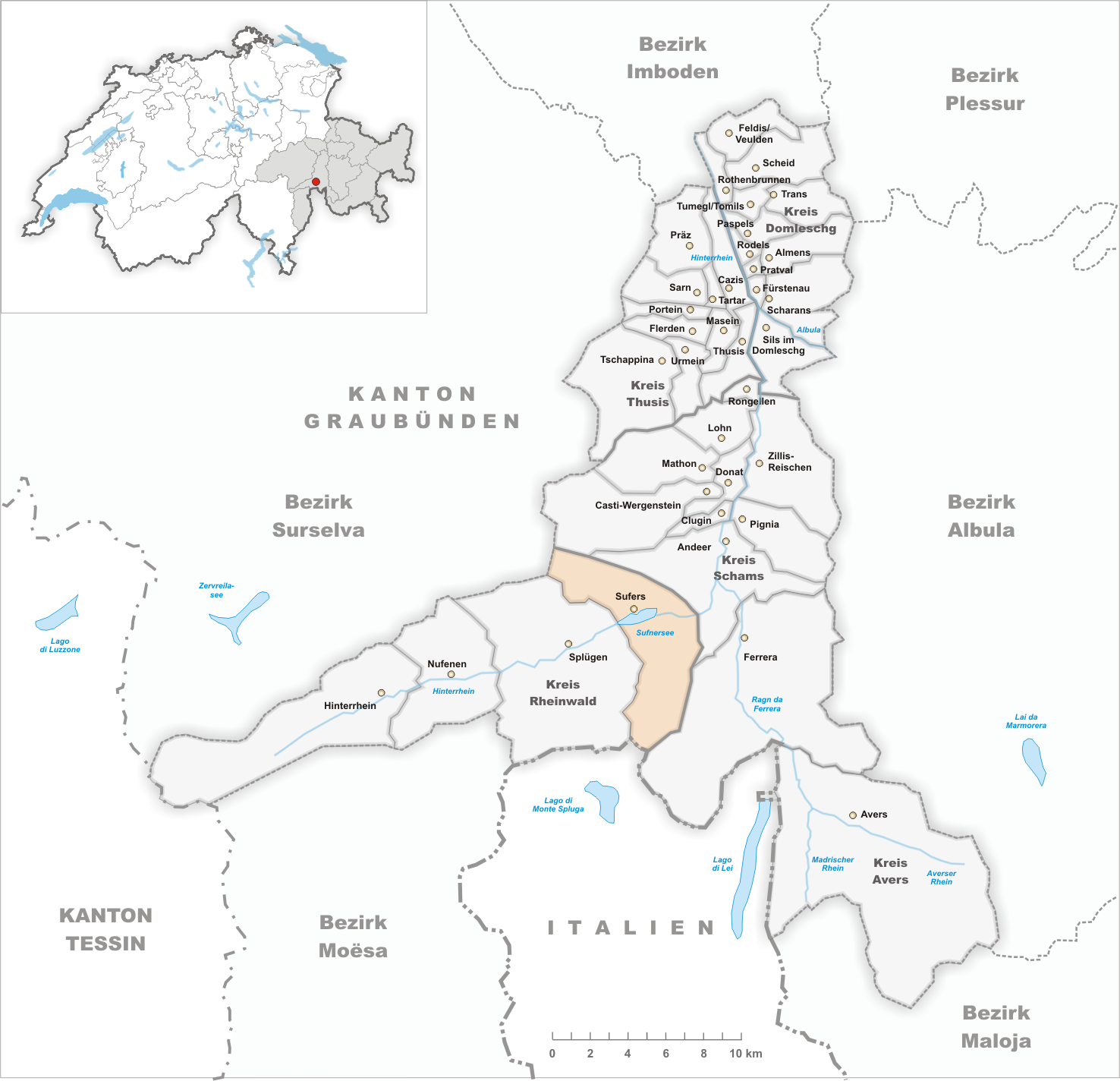 Municipality Sufers